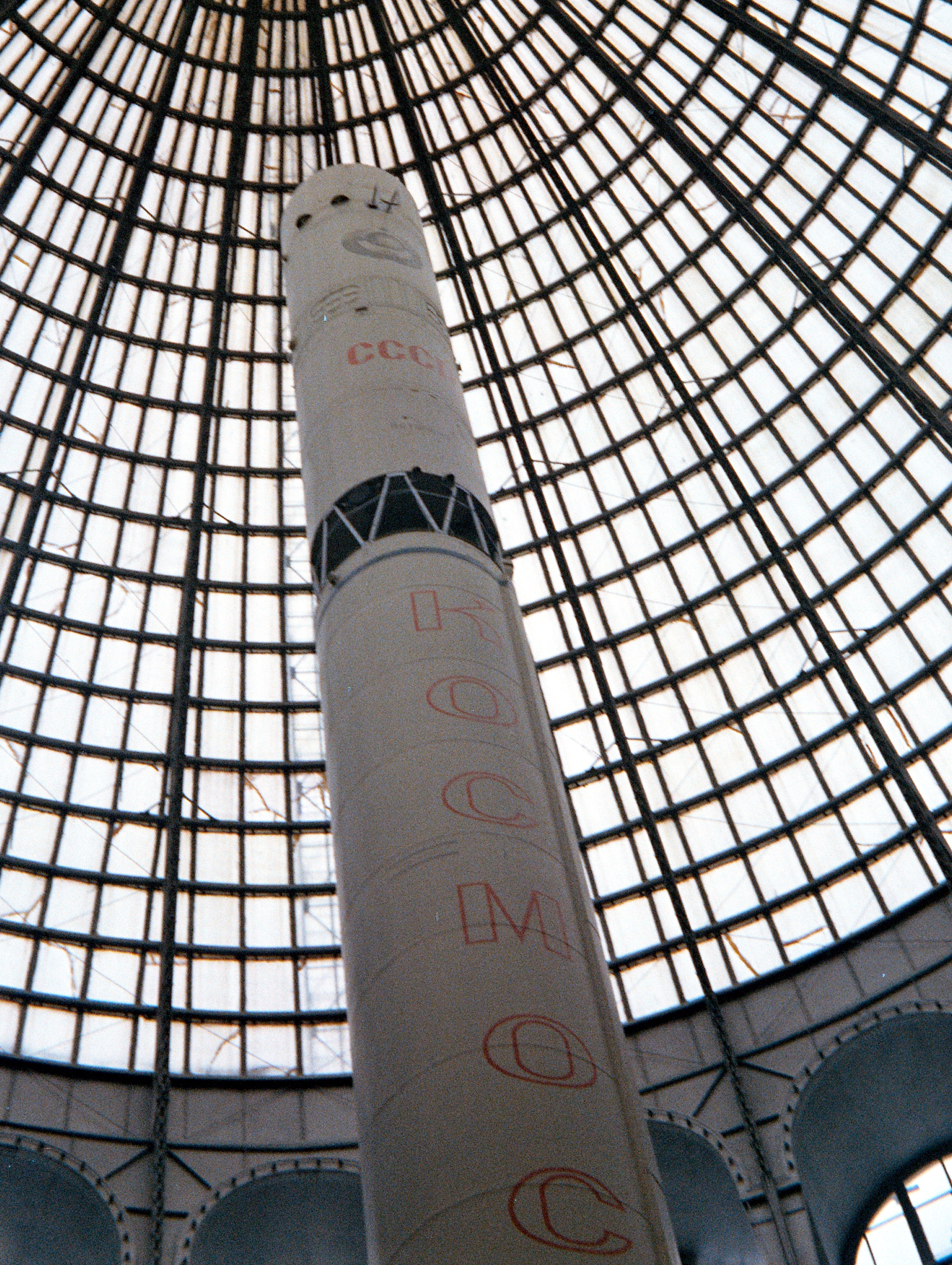 Schau der Wirtschaftserfolge, Moskau - Halle des Kosmos - Kosmos Trägerrakete